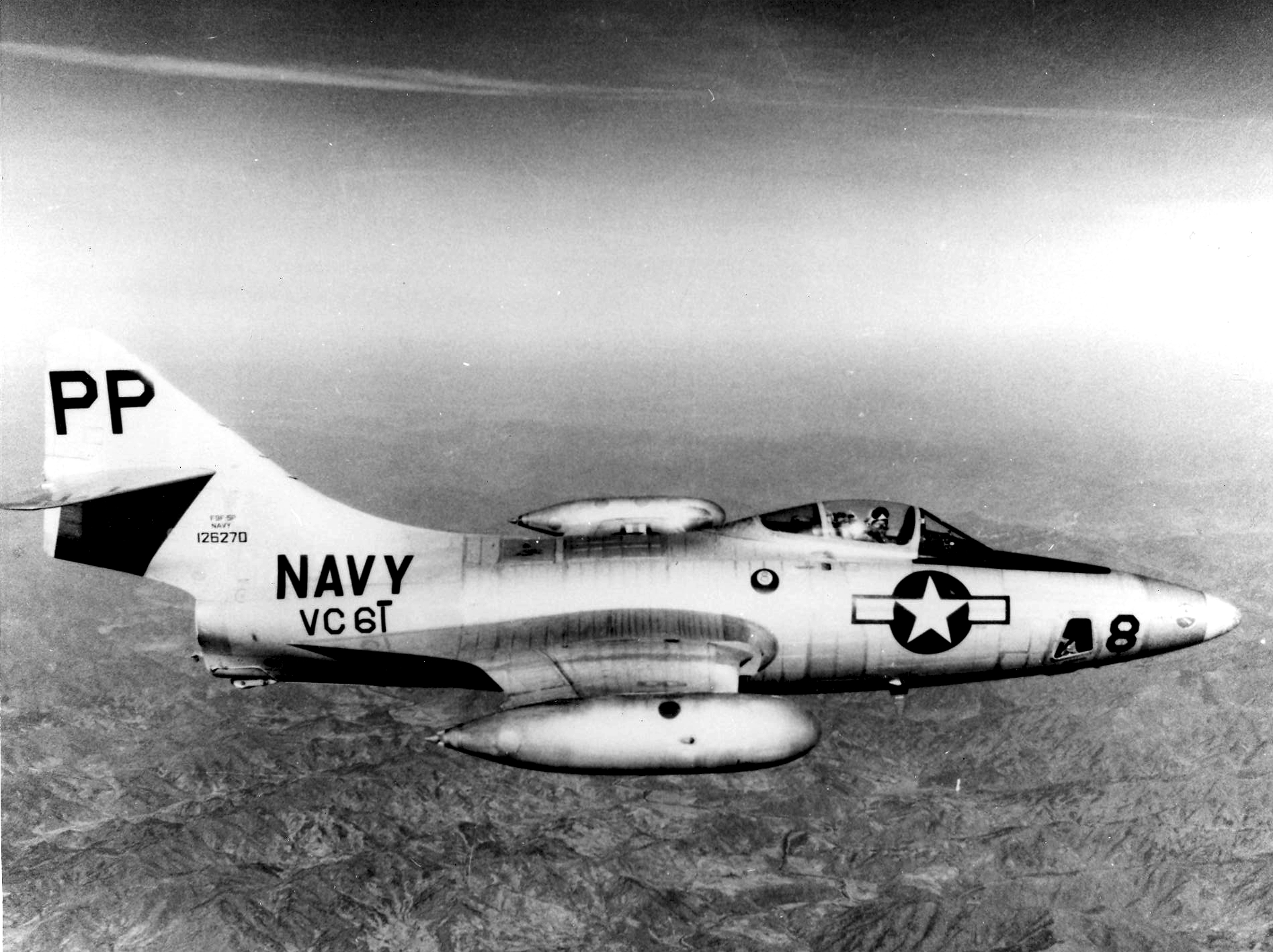 A U.S. Navy Grumman F9F-5P Panther (BuNo 126270) of Composite Squuadron VC-61 "Eyes of the Fleet" in flight over Naval Air Station North Island and Point Loma, California (USA).